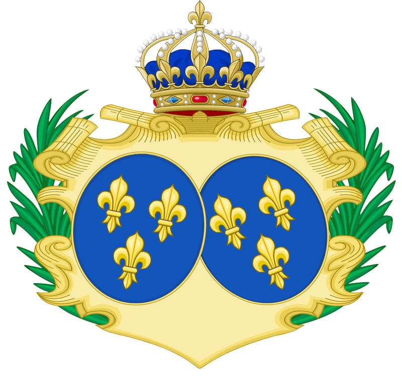 Arms of Marie-Thérèse of France (1778-1851) - To improve if necessary.